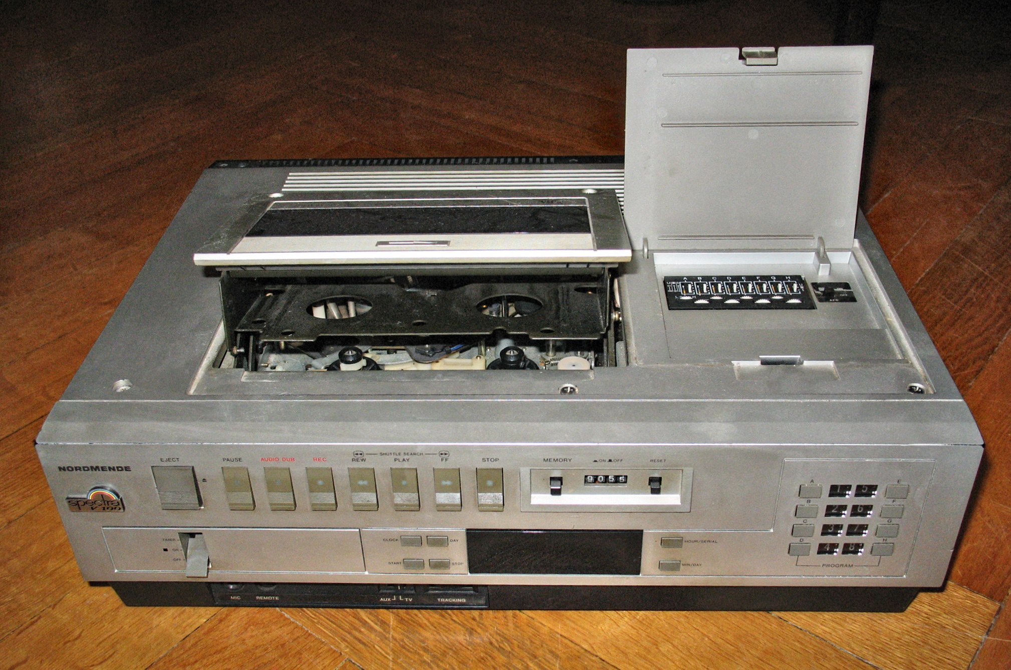 VCR by Nordmende, Type Spectra V100